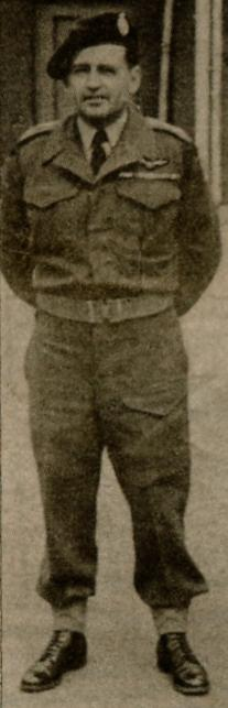 Captain (later Honorary Colonel, Royal Artillery, Sir) Richard Masters Gorham KB, CBE, DFC, JP, who served successively in the Bermuda Volunteer Engineers (reserve of the Royal Engineers), the Bermuda Militia Artillery (reserve of the Royal Artillery), the regular Royal Artillery, and the Bermuda Rifles, in London as part of the Bermudian Contingent for the 1953 Coronation of HM Queen Elizabeth II.